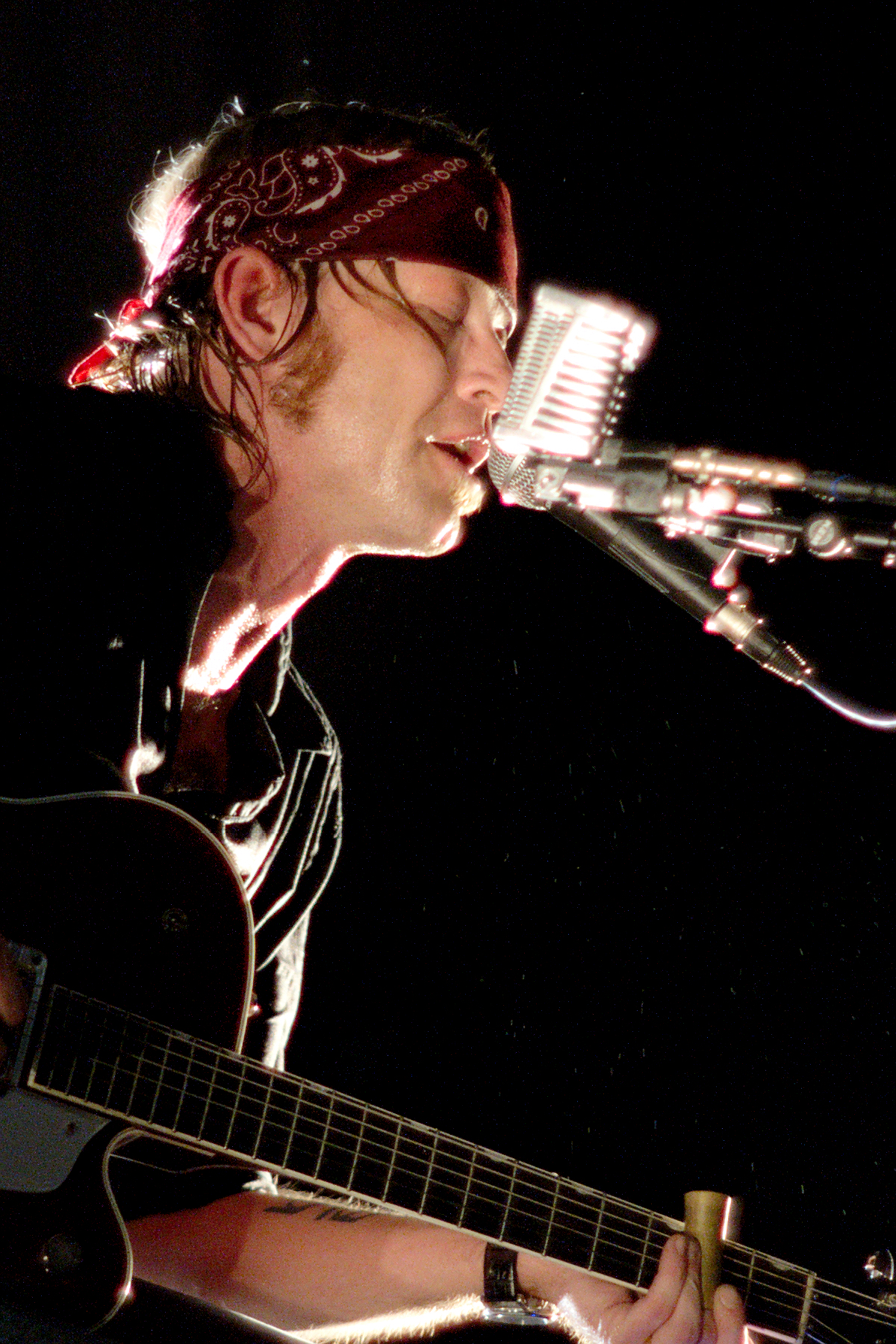 David Eugene Edwards of WovenhandView in my concert gallery.